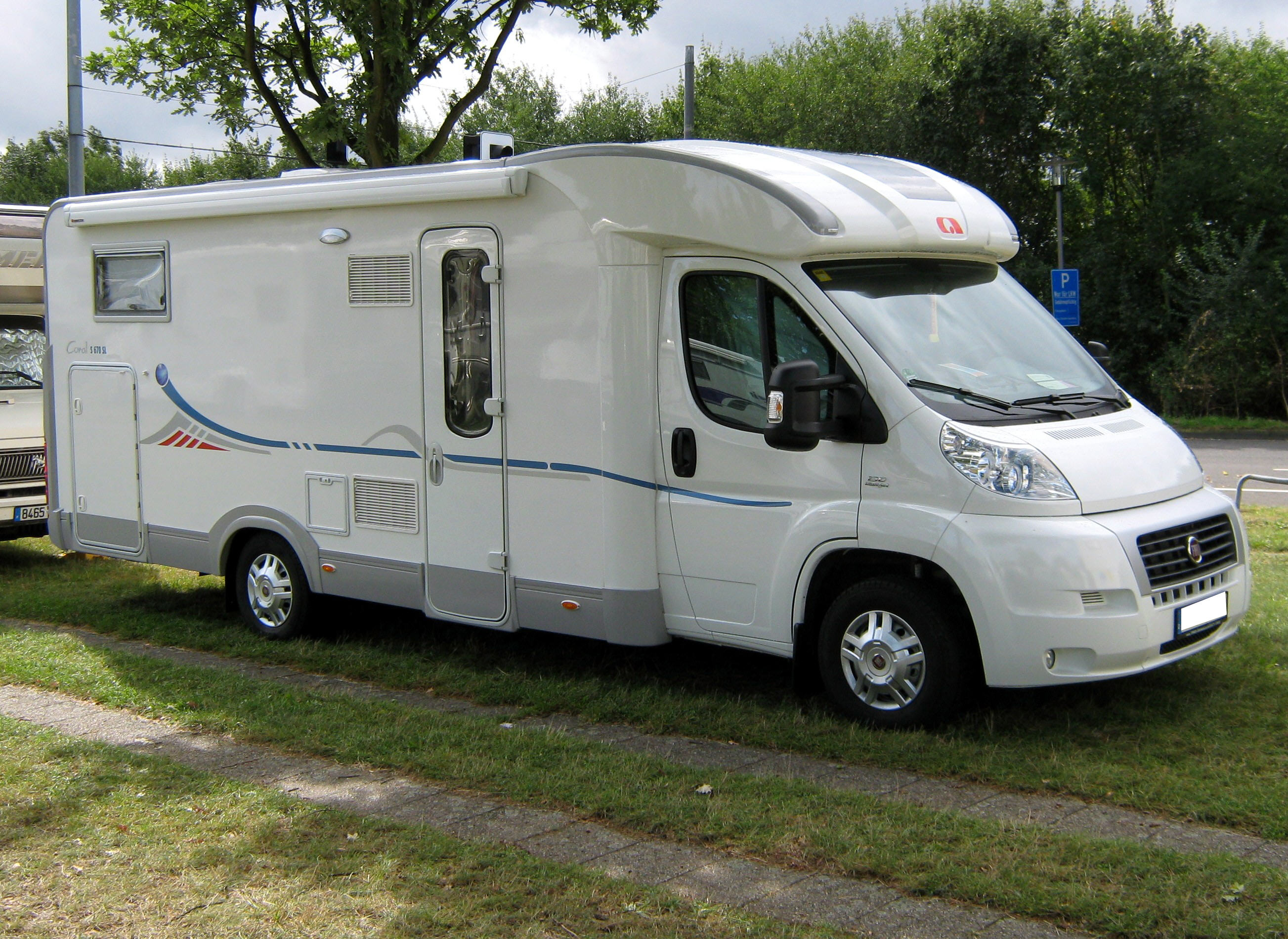 Fiat Ducato - Adria Coral S 670 SL RV.